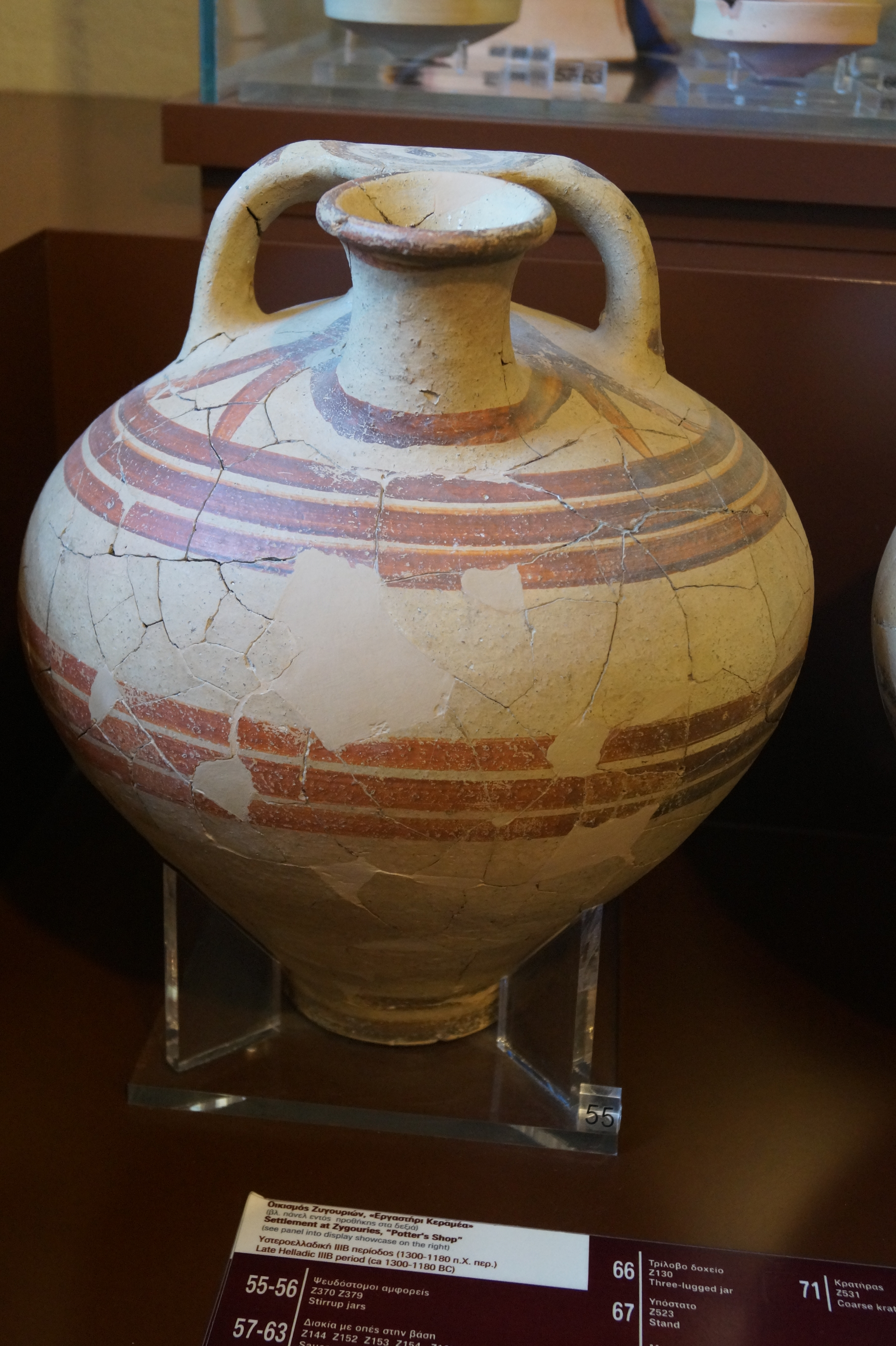 Archaeological Museum of Corinth, Corinthia, Greece: Mycenaean stirrup jar from house B in Zygouries. (LH III B, 1300-1180 BC)